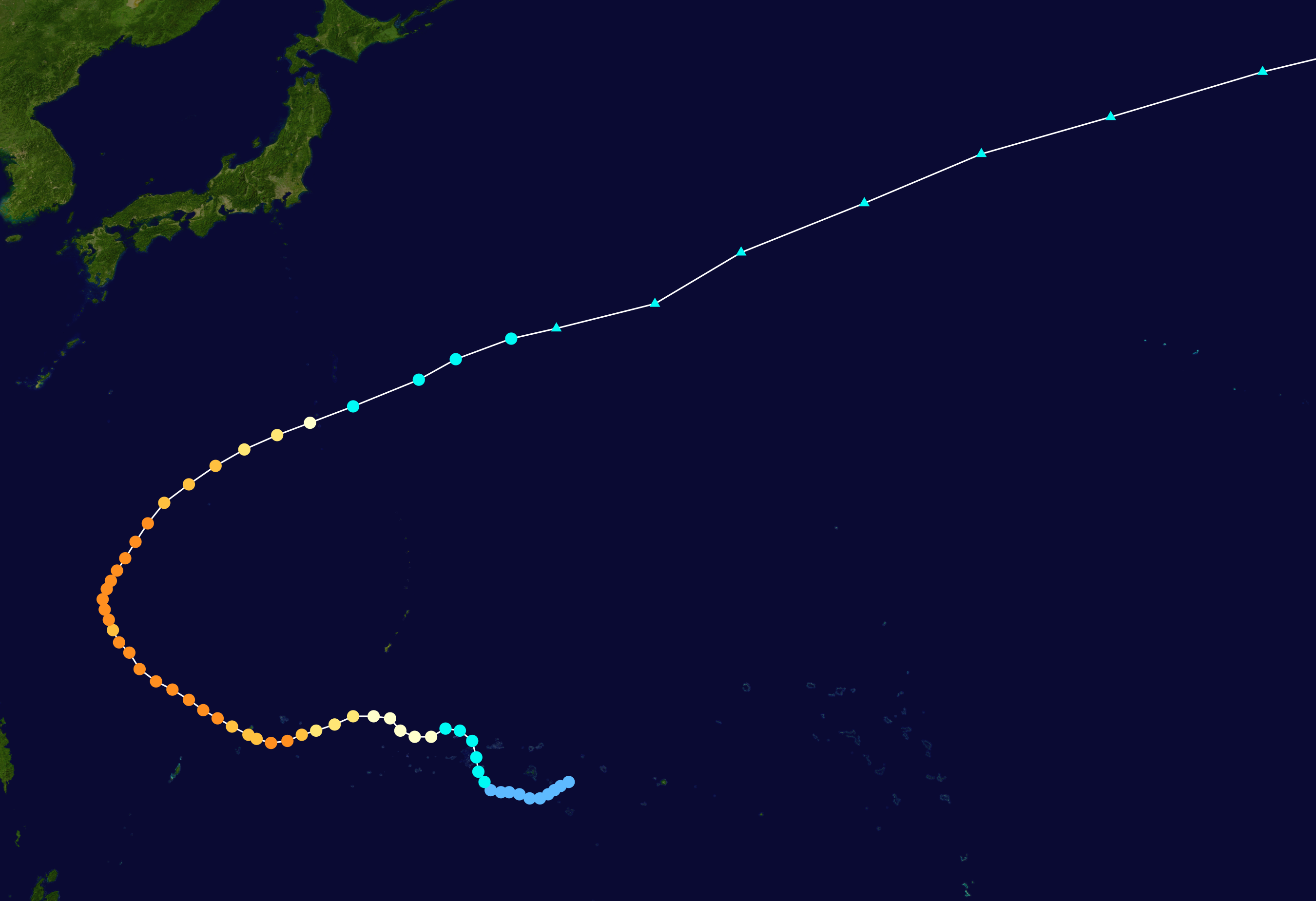 Typhoon Sudal (2004) track. Uses the color scheme from the Saffir-Simpson Hurricane Scale.